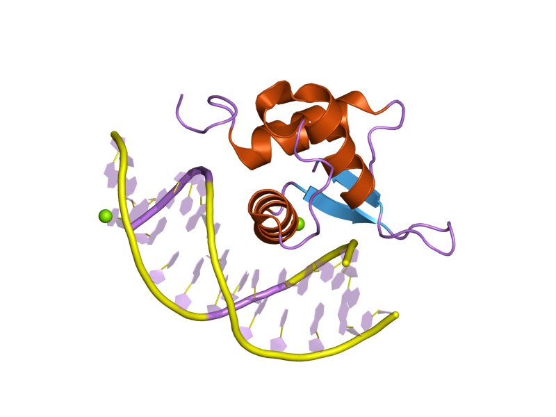 Cartoon representation of the molecular structure of protein registered with 3bpy code.